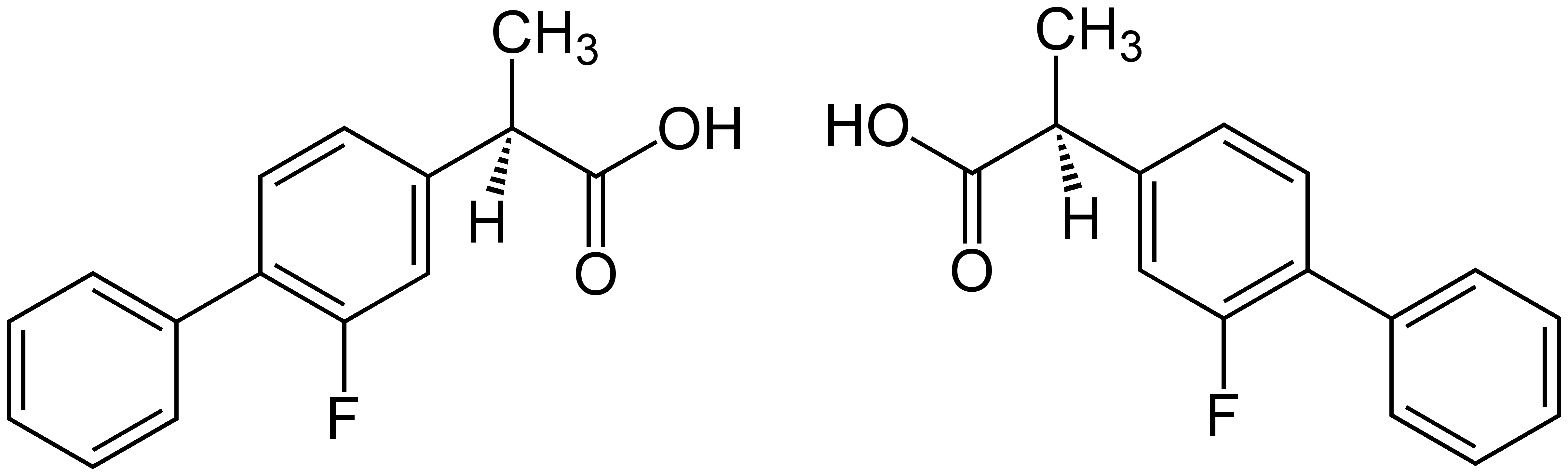 (±)-Flurbiprofen_Enantiomers_Structural_Formulae.